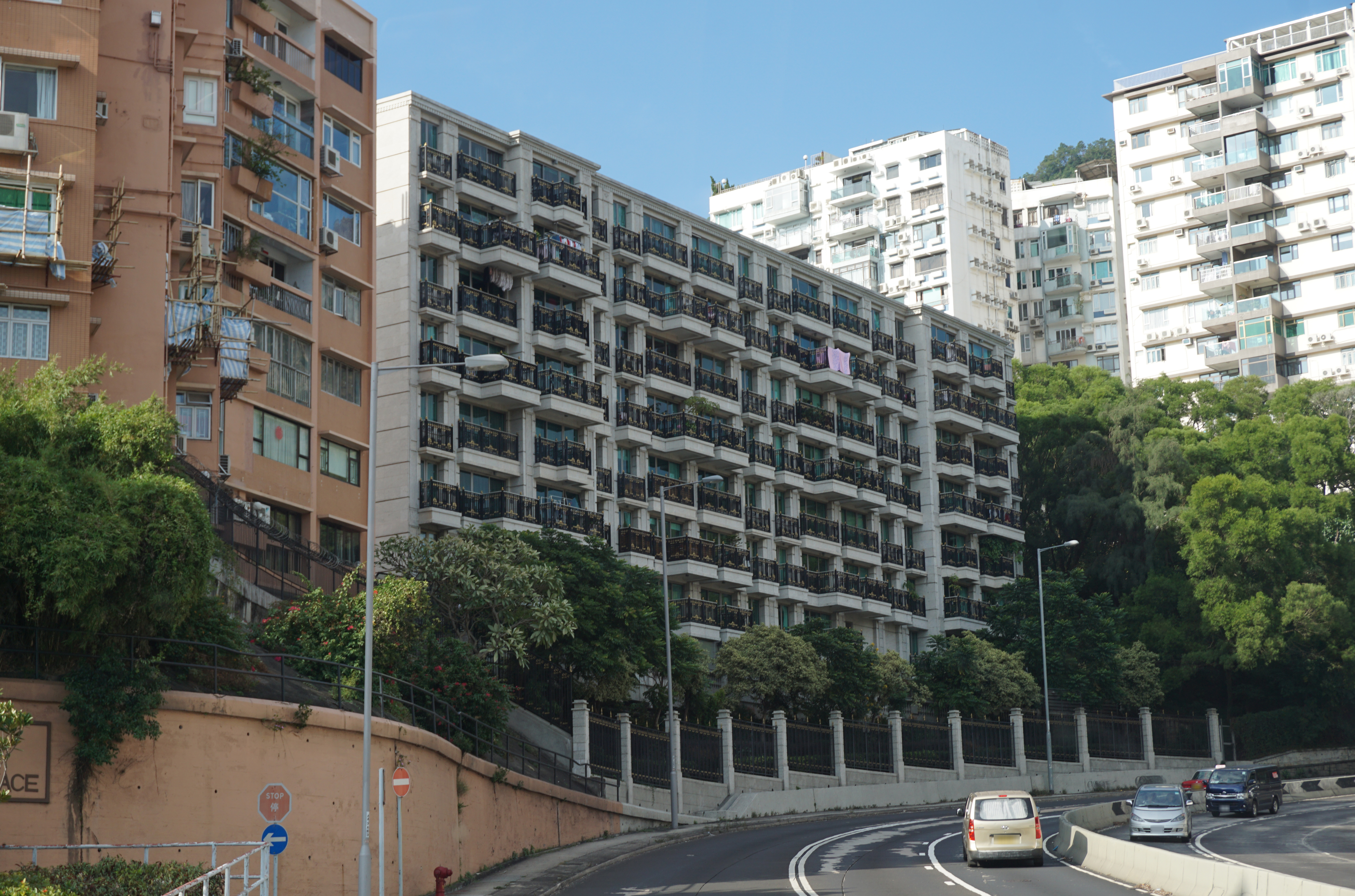 Le Chateau in Kowloon Tong, Hong Kong.